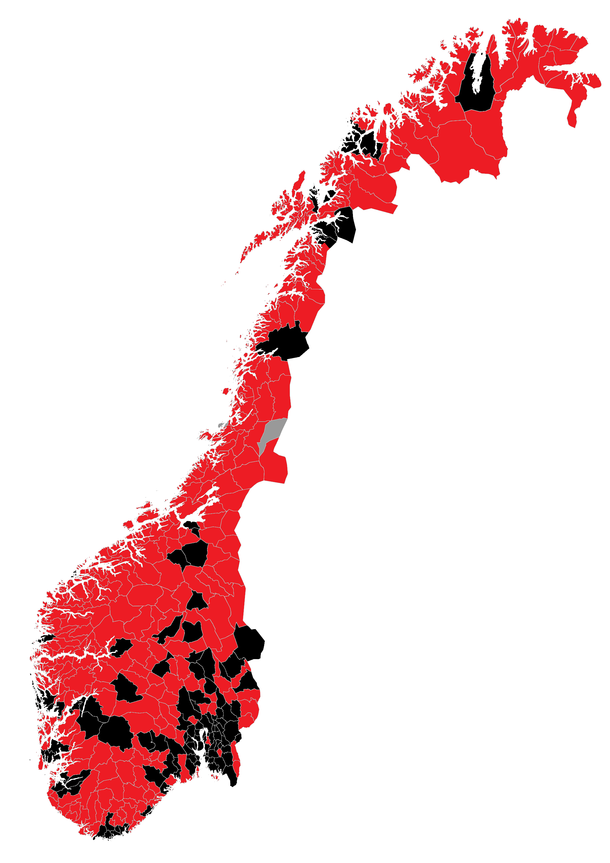 Map of the COVID-19 outbreak in Norway as of 2 July 2020. Municipalities with confirmed cases marked in red, and with both confirmed cases and deaths in black. Be aware that since this is a rapidly evolving situation, new cases may not be immediately represented visually. Refer to the primary article 2020 coronavirus outbreak in Europe or the World Health Organization's situation reports for most recent reported case information. NOTE: Municipality borders are from before the regional reform of 1 January 2020. Source of infected municipalities: Live: Corona-viruset sprer seg i Norge og Verden by VG